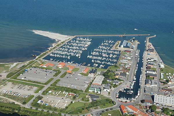 Left: Bogense old harbour. Right: Bogense marina with beach